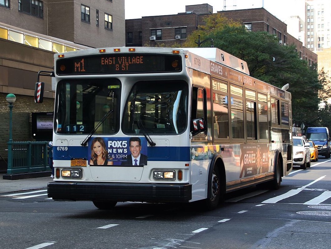 MTA NYC Bus Orion International Orion 7 (07.501 1st generation) 6769 M1 bus at Broadway & 8th St